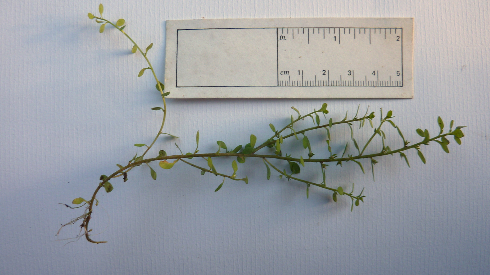 Lysimachia minima from Brazil. (A synonym of Anagallis minima)